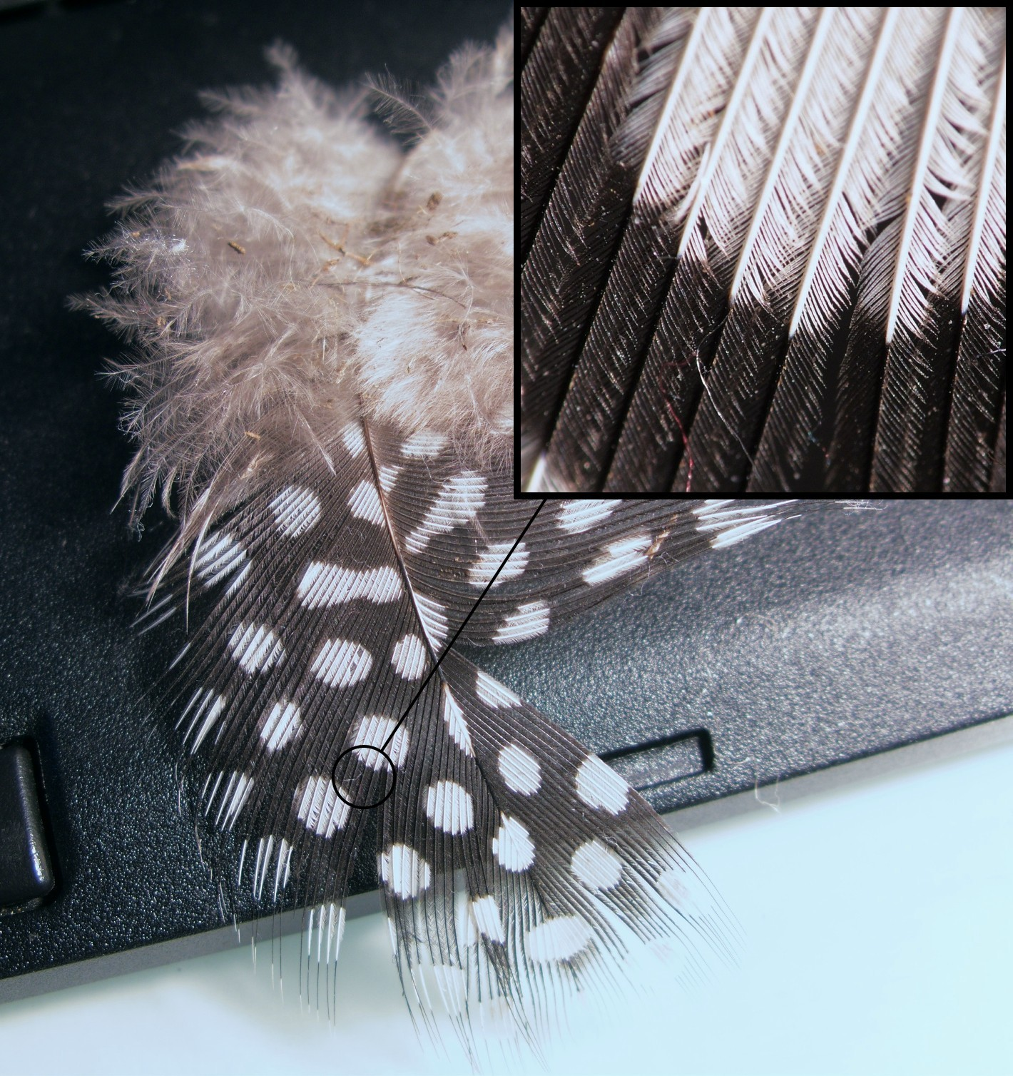 Feather of a Guinea fowl, with up close.